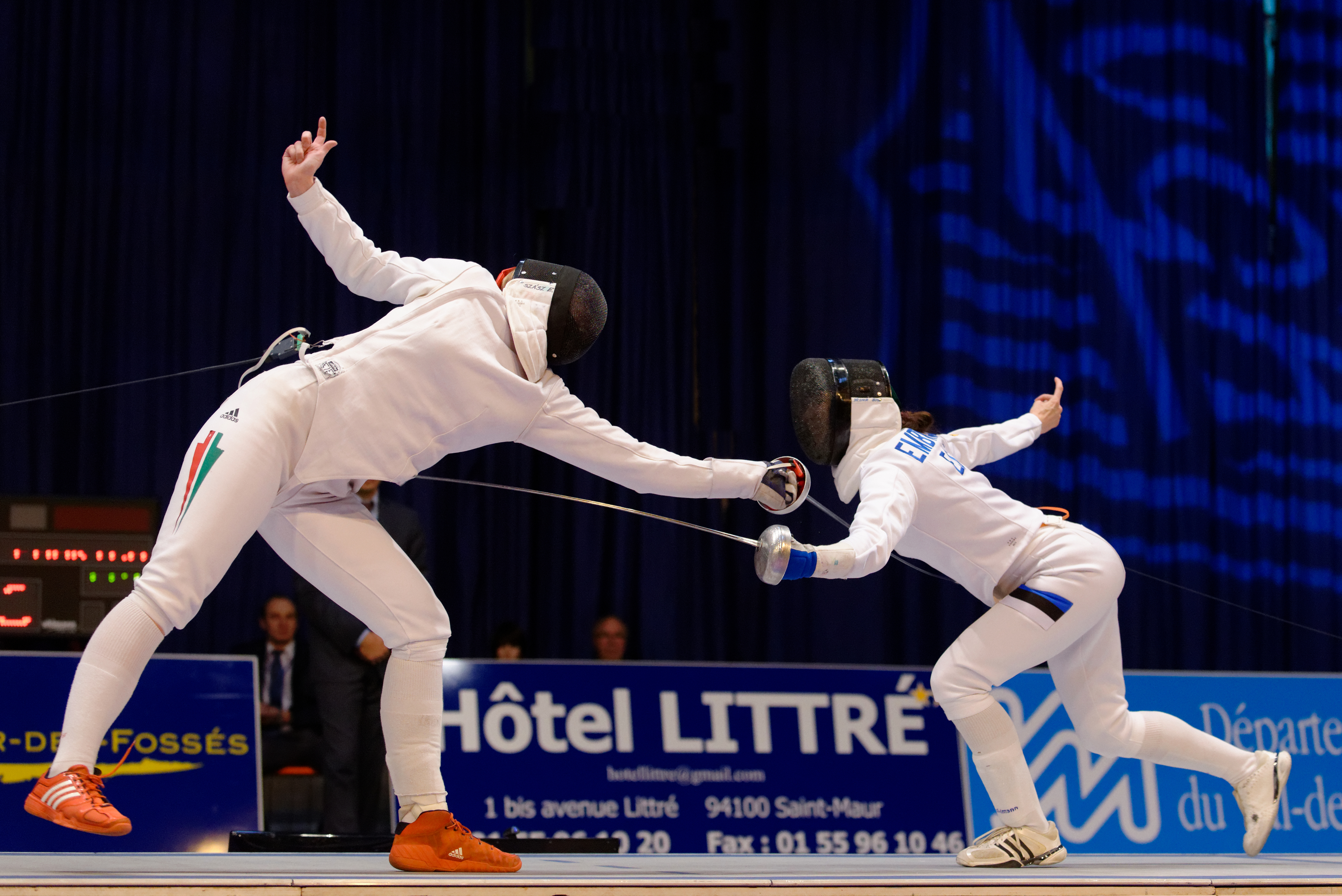 Emese Szász (left) v Irina Embrich (right). Quarter-final of the Challenge international de Saint-Maur 2013, a women's épée World Cup competition.